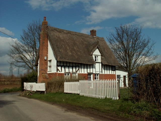 Cottage at Dorking Tye, Suffolk. Dorking Tye is an area near the village of Assington. This lovely thatched timber-framed cottage is just one of the few buildings in this part of rural suffolk.